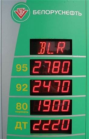 Capture of typical selection of fuels at a gasoline station in Belarus: non-leaded 80, 92 and 95 and diesel.